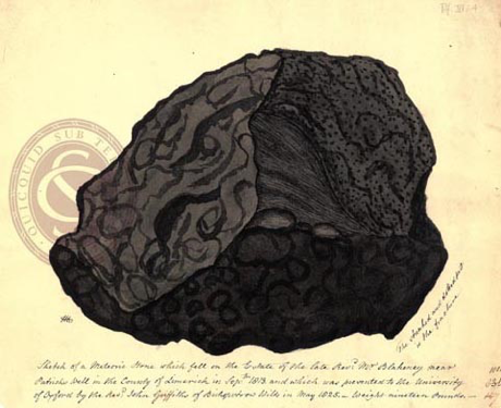 Benett, Etheldred. 1825. Watercolour of Meteorite. The Geological Society of London. Retrieved from